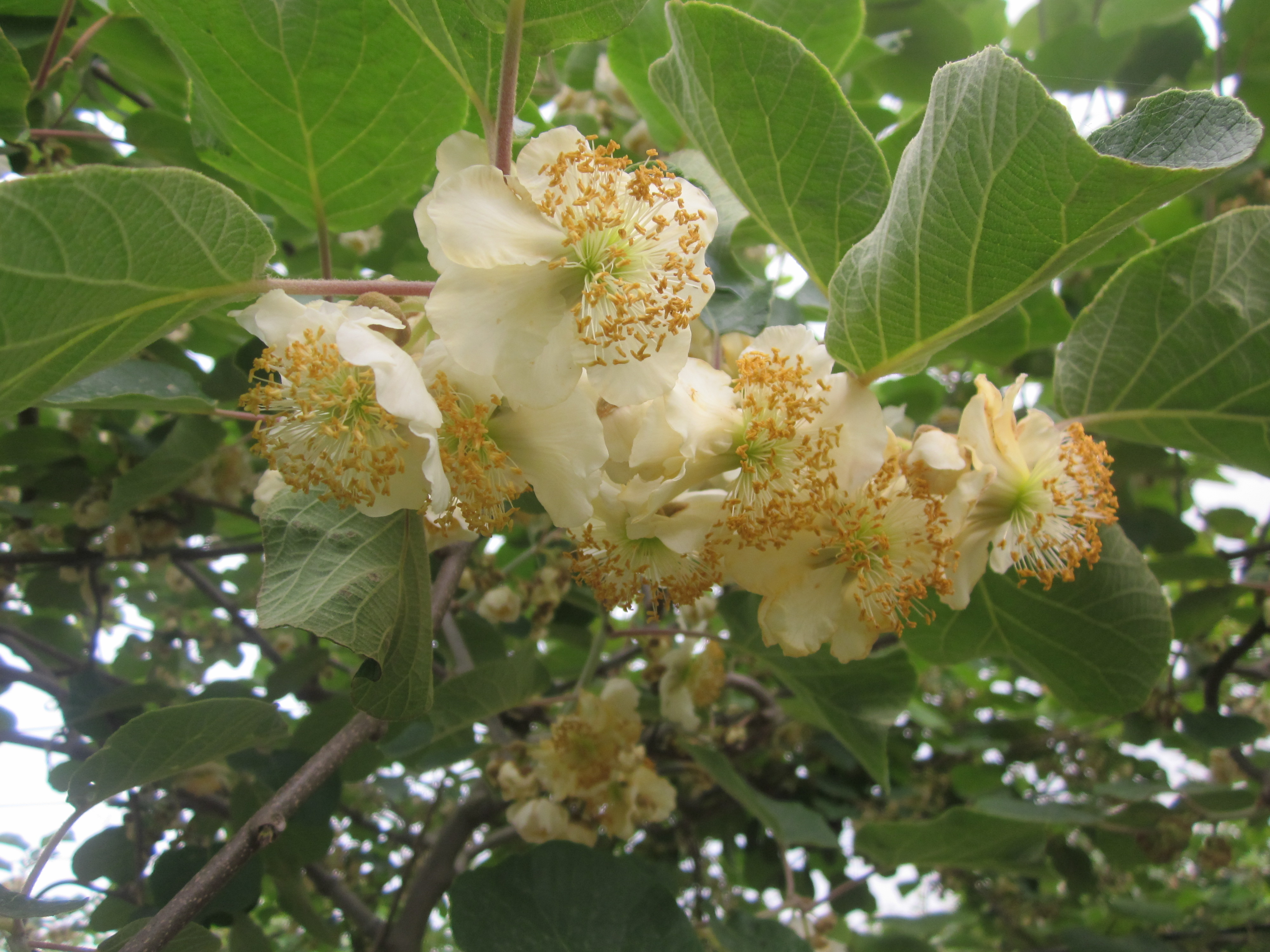 Kiwi blossom in Roudsar (northern part of Persia), 2014